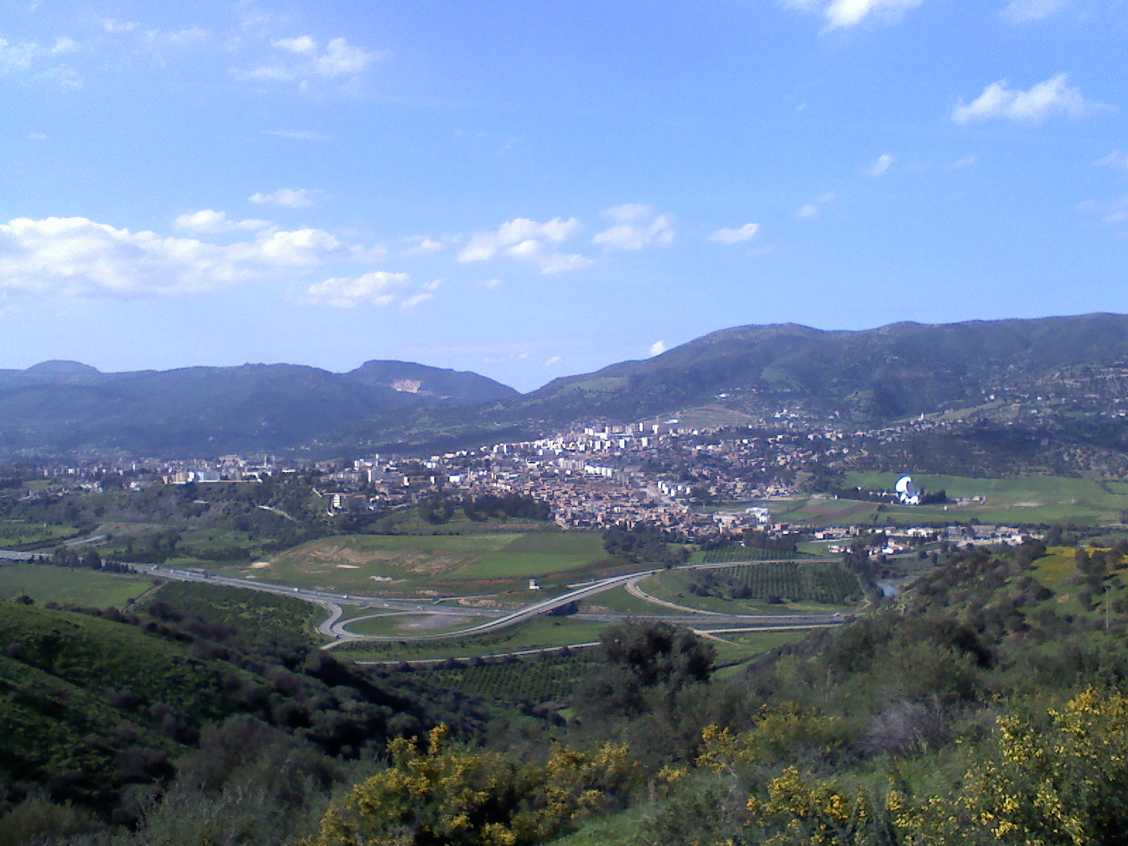 Lakhdaria Town